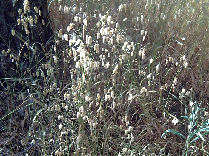 A own work release by Javier martin, donated to Wikipedia. Species Briza maxima Familia Poaceae Briza maxima, Pinos de la térmica, Puertollano Spain. 27 April 2006. Drżączka większa